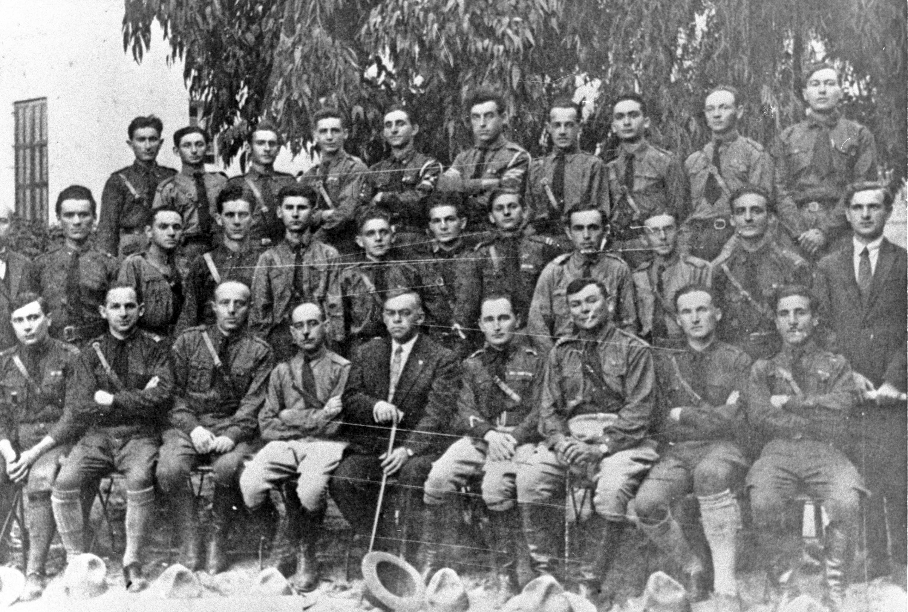 Zeev Jabotinsky during the third convention of Brith Trumpeldor officers in Tel Aviv.